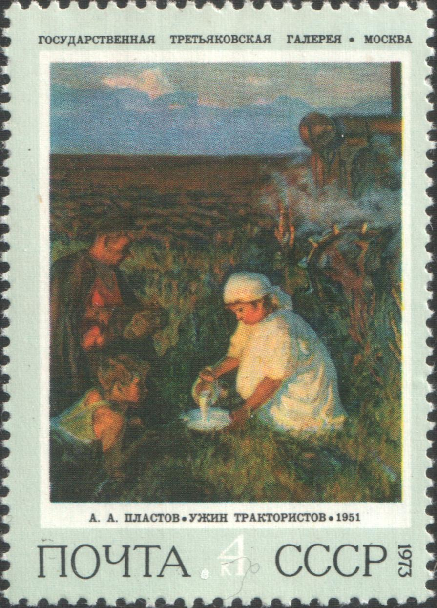 USSR stamp